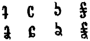 the 8 click letters of Beach